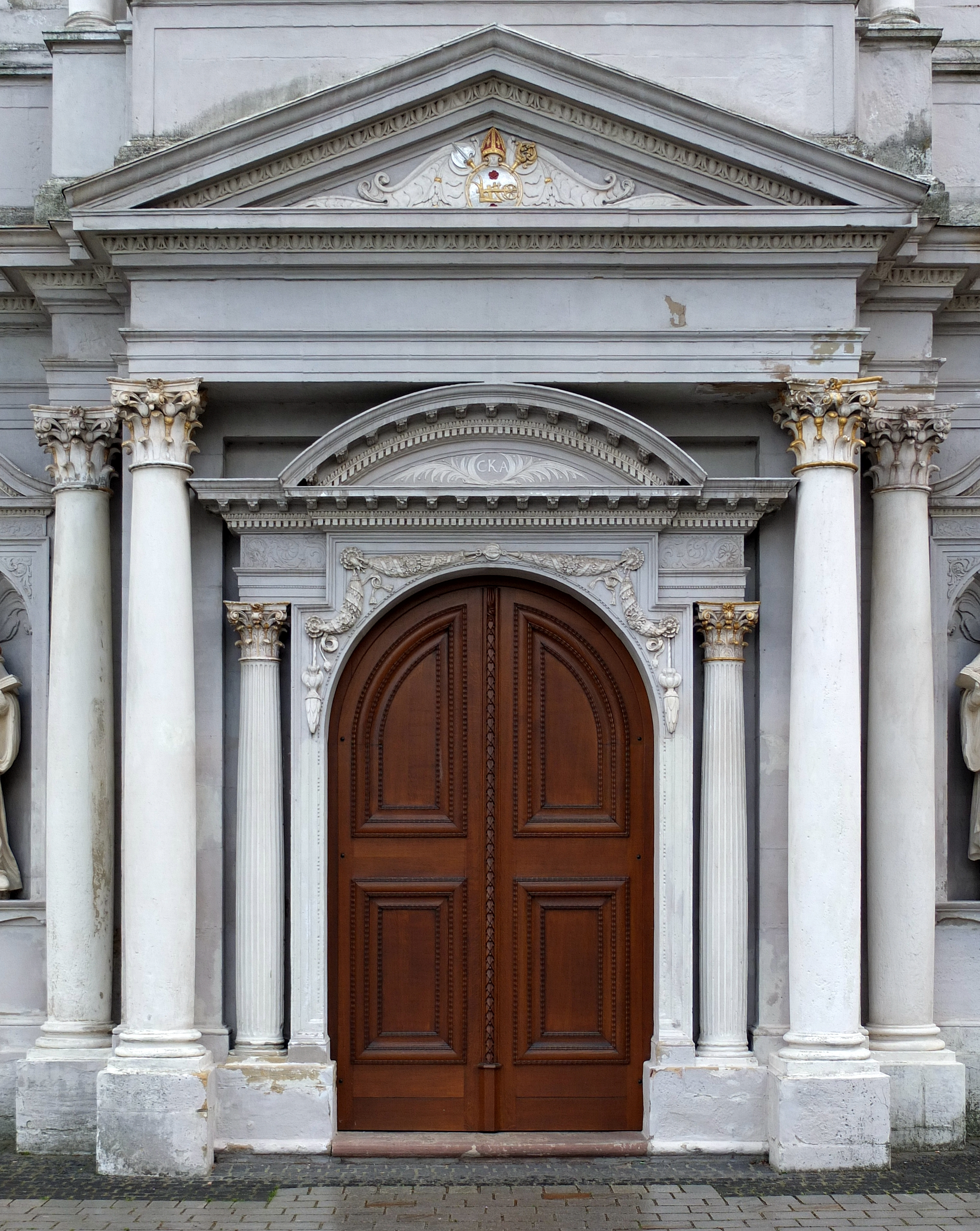 Main portal of St. Matthias basilica, Trier, Germany.